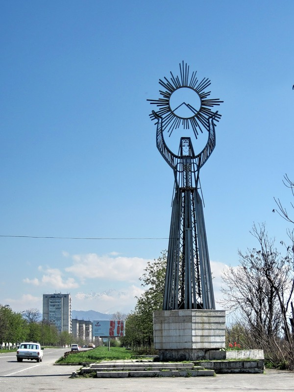 "Iron Fatima", a statue on the entrance to the city of Vladikavkaz (North Ossetia, Russia).